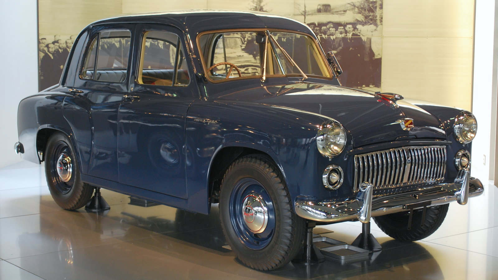 Toyopet Super Model RHN (1953)